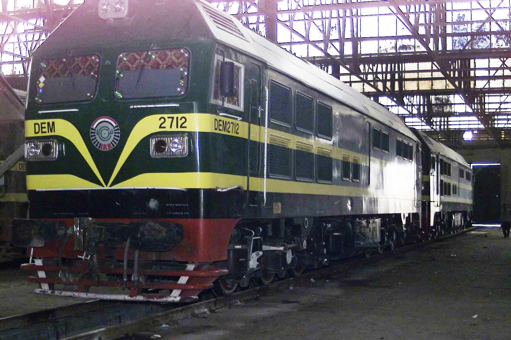 One of the many engines used by the IRR. The railroad has wide assortment of German, Italian and Portuguese engines. Coalition Joint Task Force 7 provides funds and oversight, as the Iraqi run railway rebuilds and maintains its infrastructure, Nov. 12, 2003. The Iraqi Republican Rail lines, originally started in the 1910s, provide transportation for cargo and passengers to over 100 rail stations throughout Iraq. Construction on the Baghdad Central Railway Station was started in 1924 and finally completed in 1954 by the British.